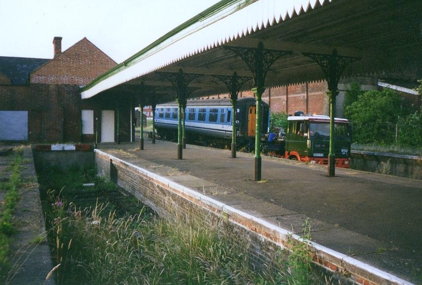 Mk2 2 carriage 13447 on a low loader running through the trackless semi-derelict platforms at Dereham in 1995